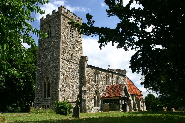 Boxted Church